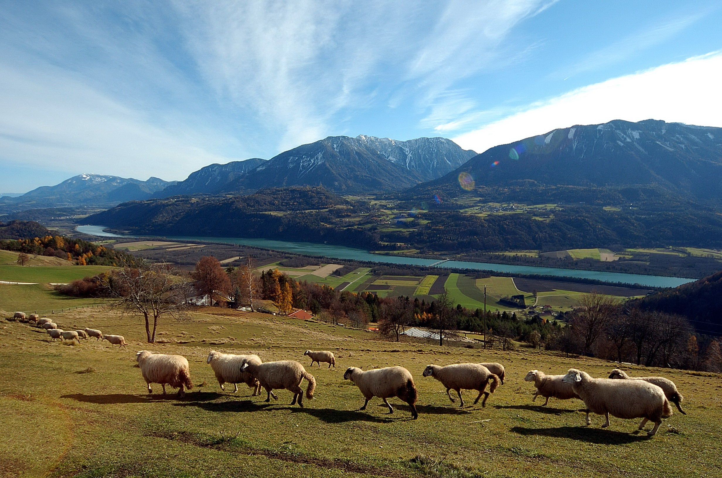 Eastern part of the Rosental valley with Carinthian´s main river Drava and the mountains Hochobir and Petzen in the background, seen from the Sattnitz mountain at Oberkreuth in the community Ebenthal in Kärnten, district Klagenfurt-Land, Carinthia, Austria.